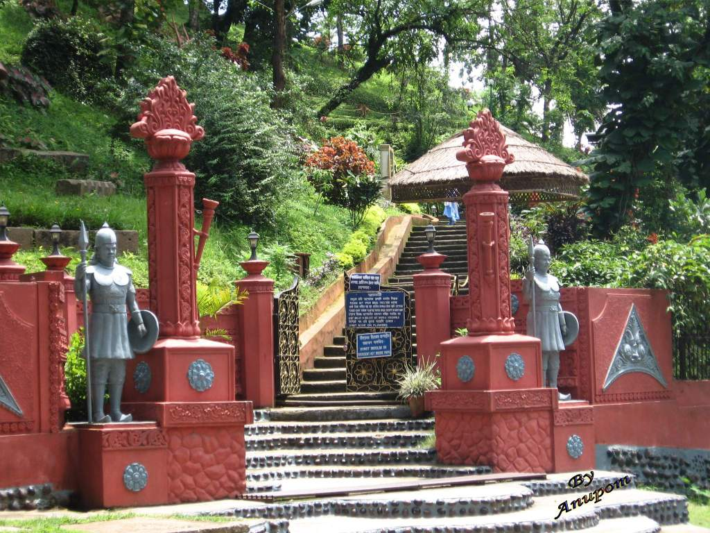 This photograph is of the entrance to the magnificent Agnigarh Hill in Tezpur. It is one of the most visited places of mythological as well as historical importance in Assam. The hill is about 200 metres high, over which a beautiful park is opened a few years ago. Atop the hill, also lies a viewpoint from which the aerial view of the green and scenic town of Tezpur can be seen. Author: Anupom Bora, Tezpur